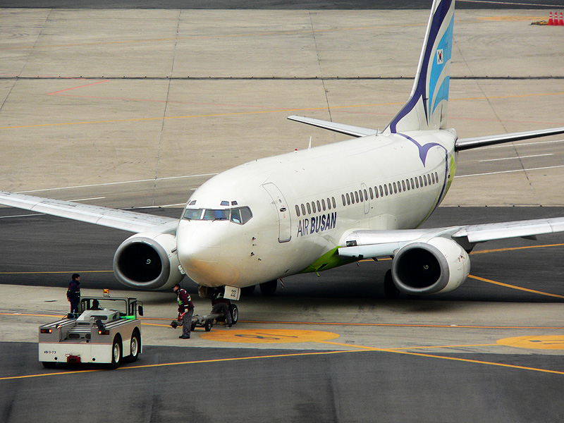 Air Busan(BX/ABL) Boeing 737-500